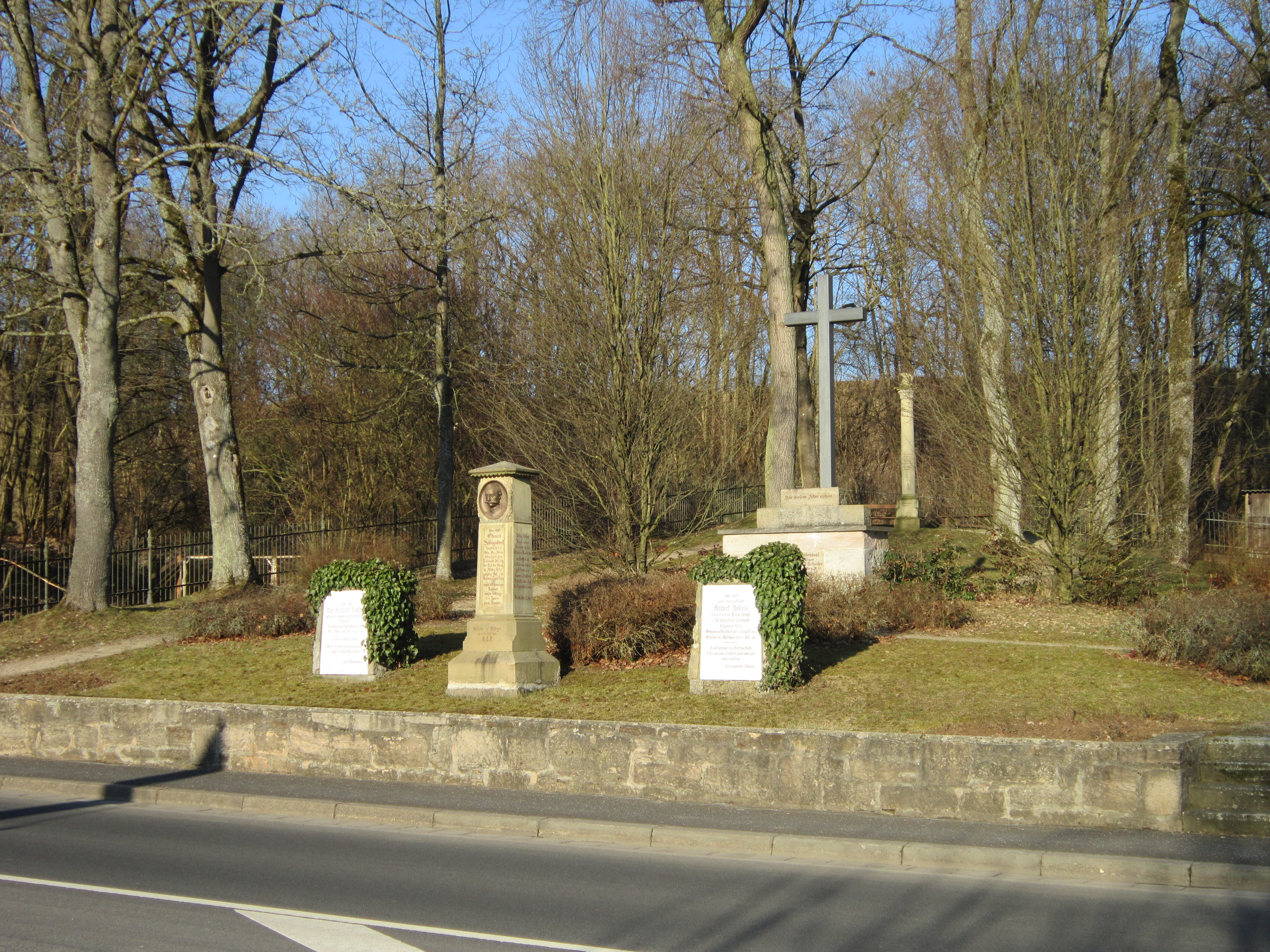 Grave of German officer Eduard Schlagintweit in Hausen, a quarter of the German spa town of Bad Kissingen (Lower Franconia, Bavaria).